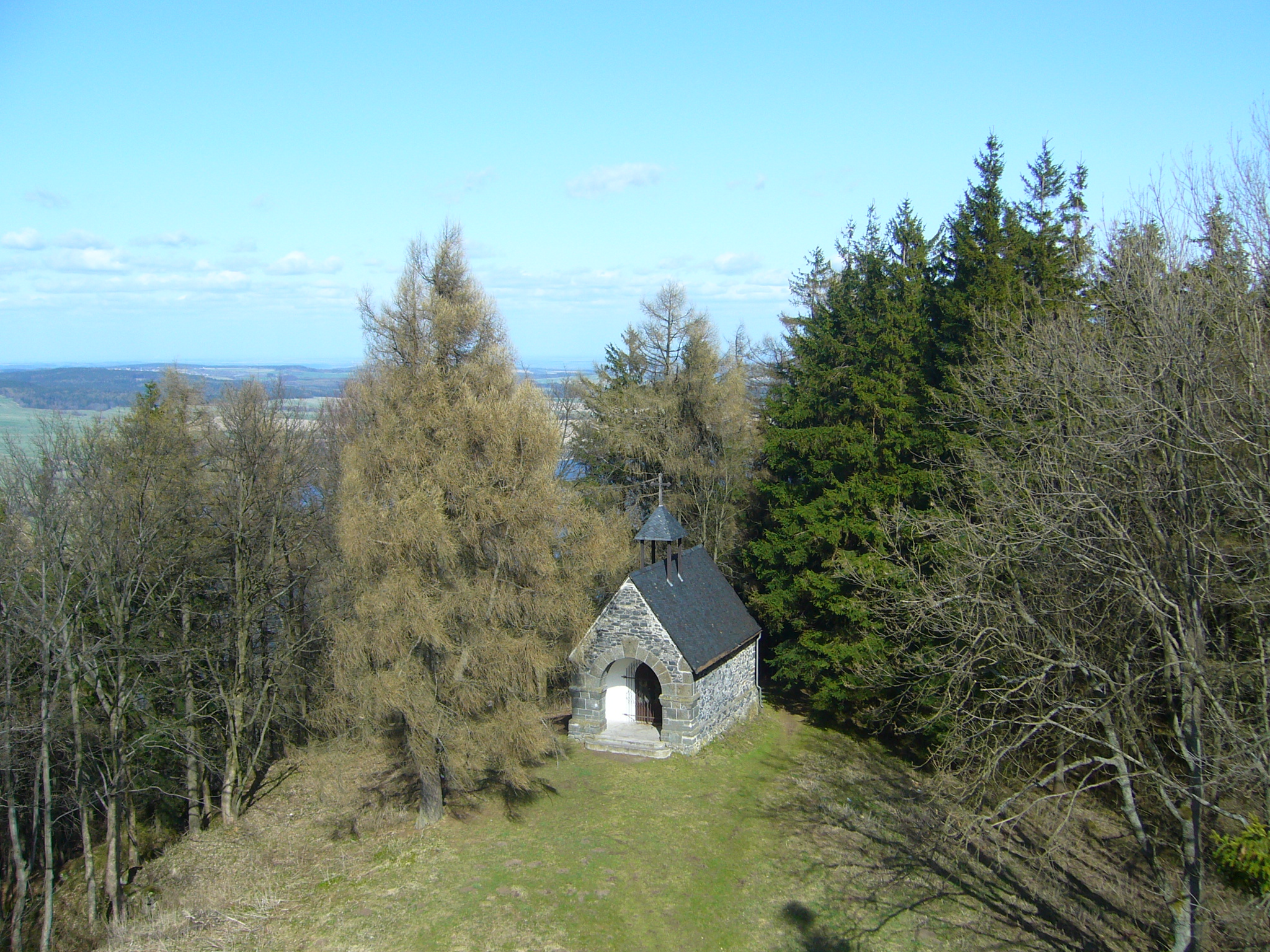 Chapel on Velký Roudný hill